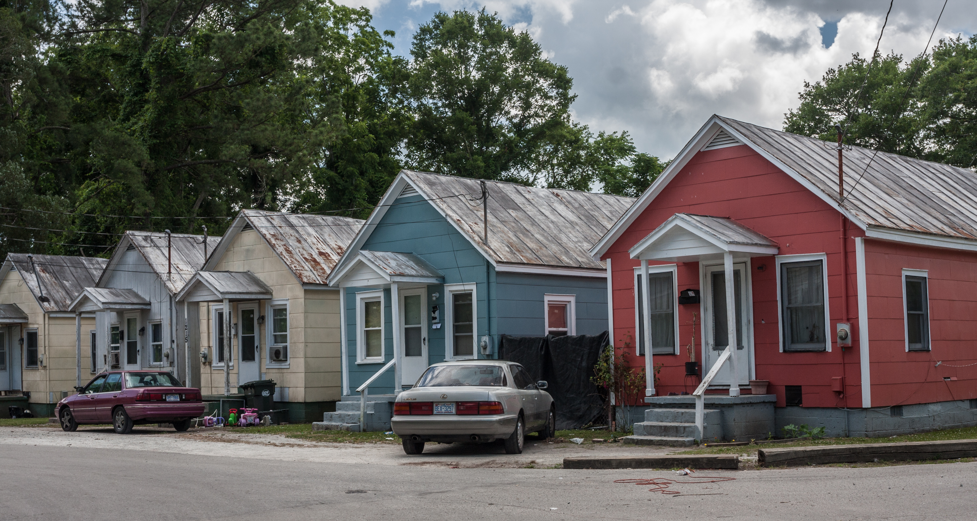 Residential homes along E Street in New Bern, NC